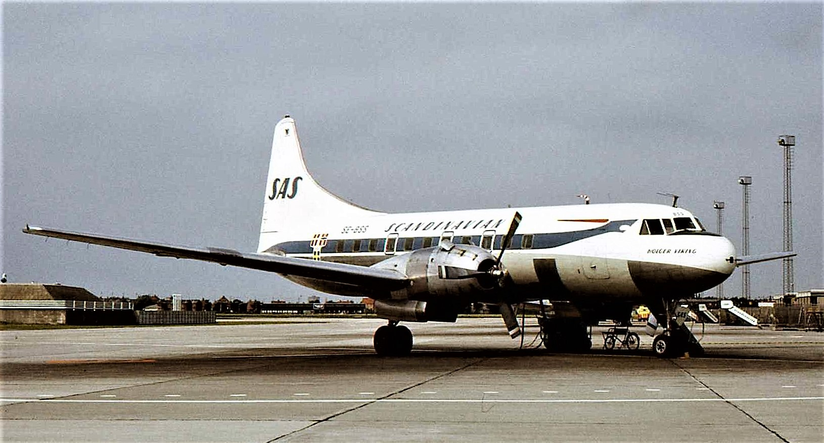 Scandinavian Airlines Convair 440 SE-BSS still in the fleet taken at Copenhagen Airport in 1972.